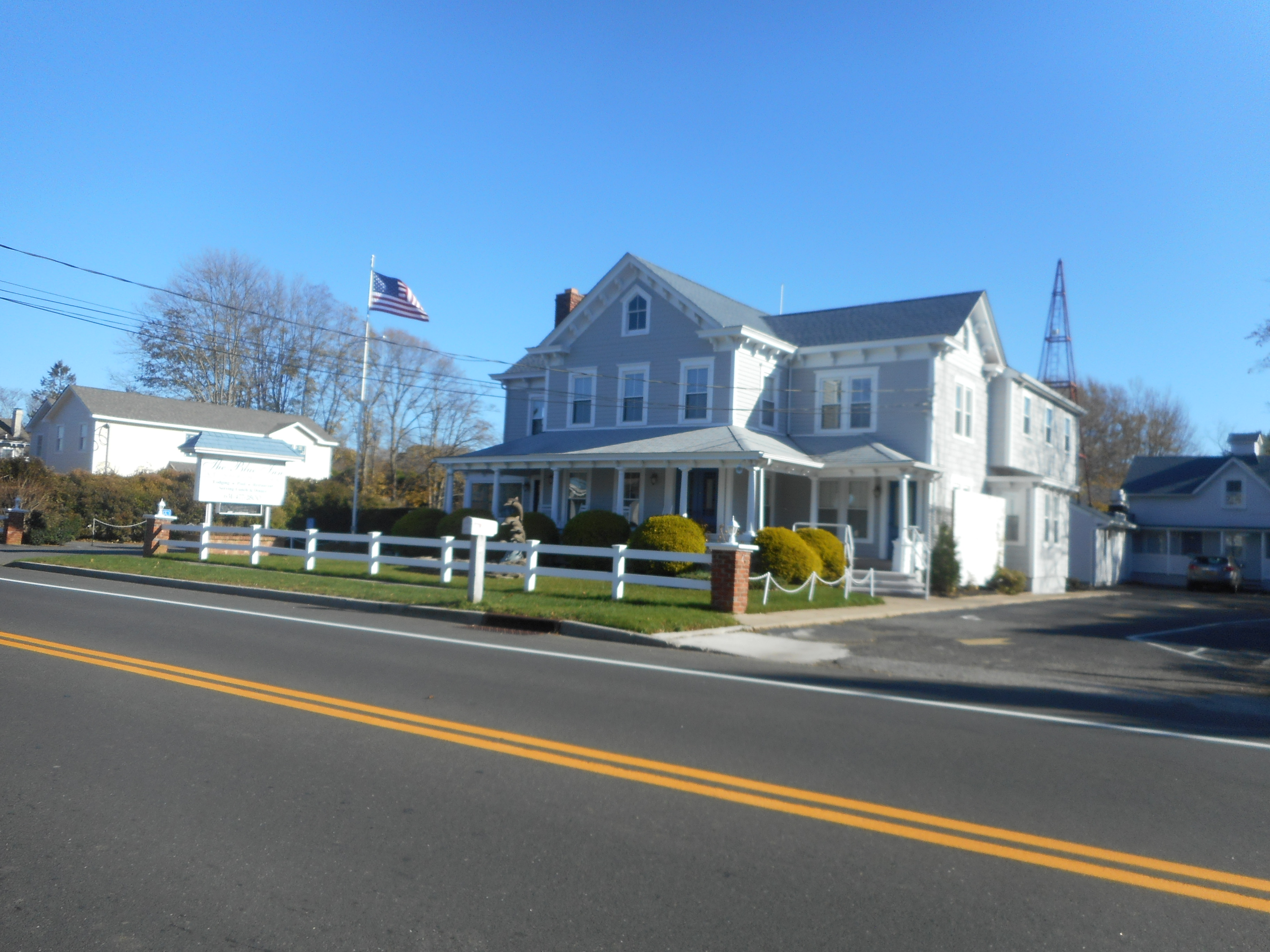 An attempted capture of "The Blue Inn" from across New York State Route 25 in East Marion, New York. The main problem was that I couldn't get a good shot of the sign. For the record, I did get out of my car for this shot.